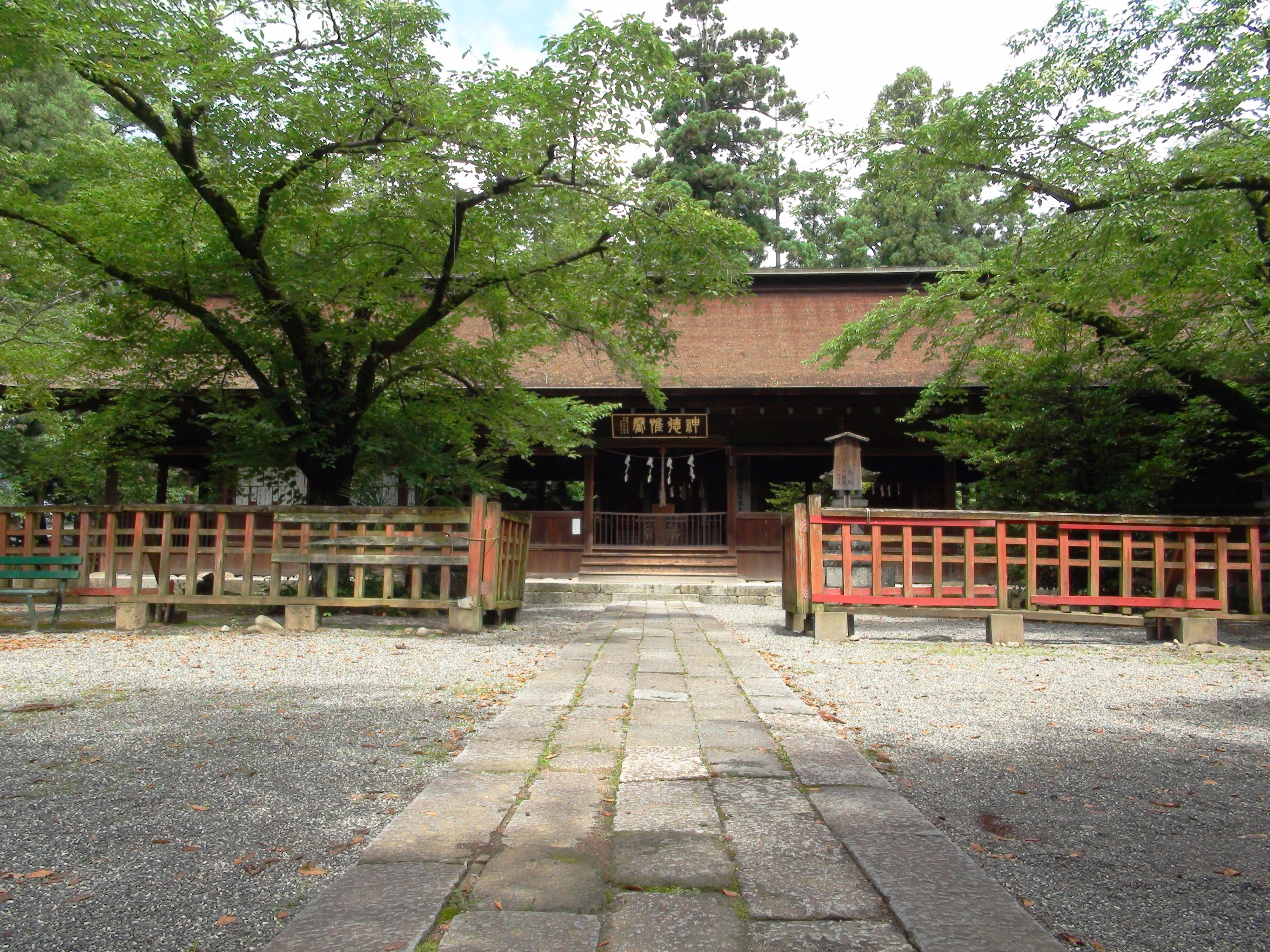 Oimatakubo-hachiman shrine Yamanashi-city